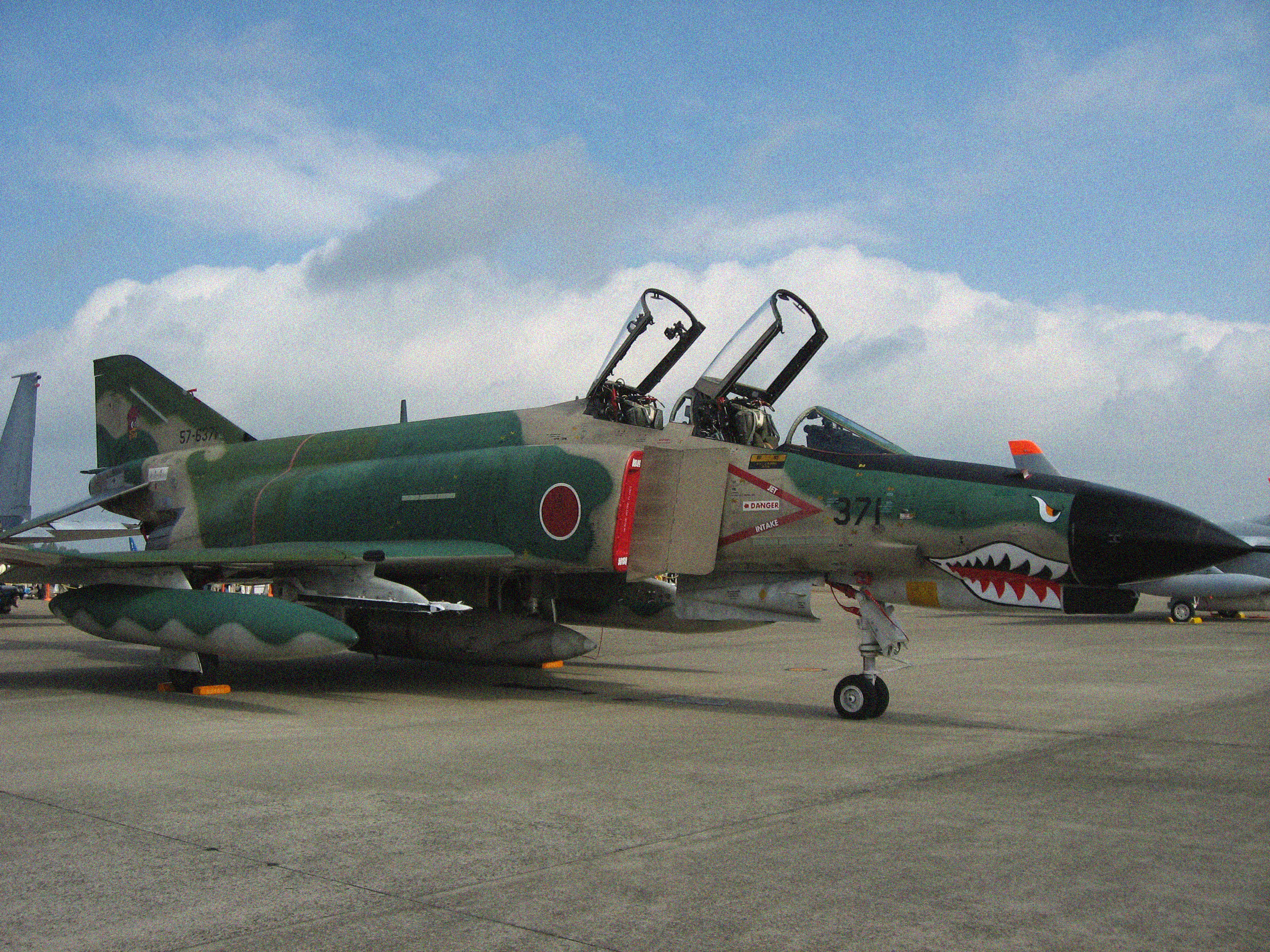 Mitsubishi RF-4EJ (371) of 501 Sqn displayed at Hyakuri Air Base open day.